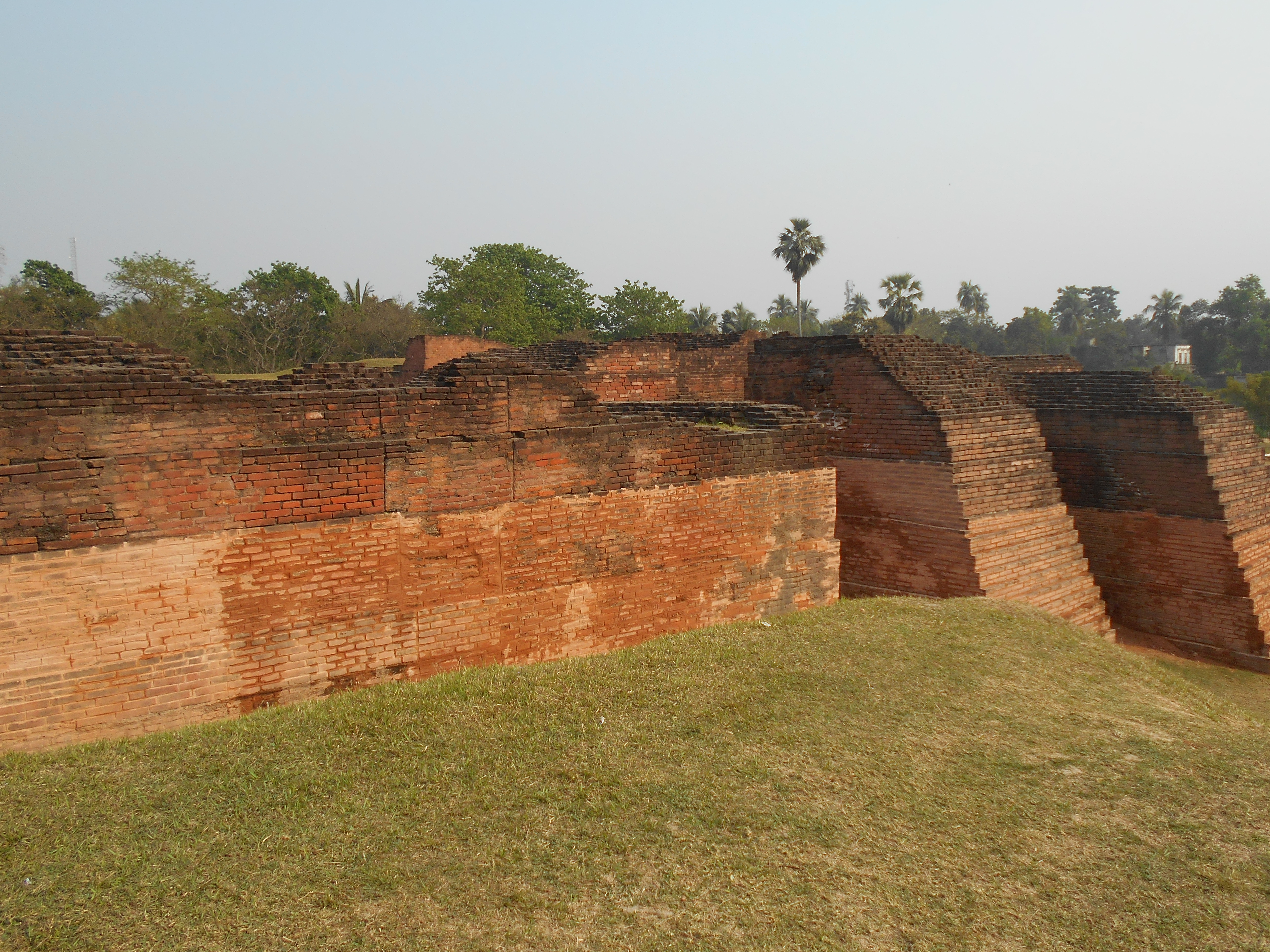 Wrecked Edifice